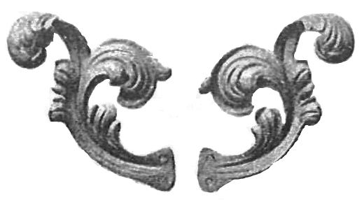 Extracted with tools in Photoshop editing software and rendered in Black and White for text ornamentation of literary or other works from Wrought Iron Ornaments (1928), J. G. Braun Co., Chicago IL, New York NY, (48 p., illus., 22, x 28 cm, trade catalog, made available on under Creative Commons license: Public Domain Mark 1.0)